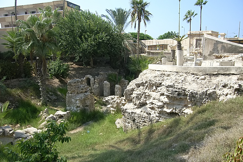 Excavation area of Anfushi, Alexandria, Egypt